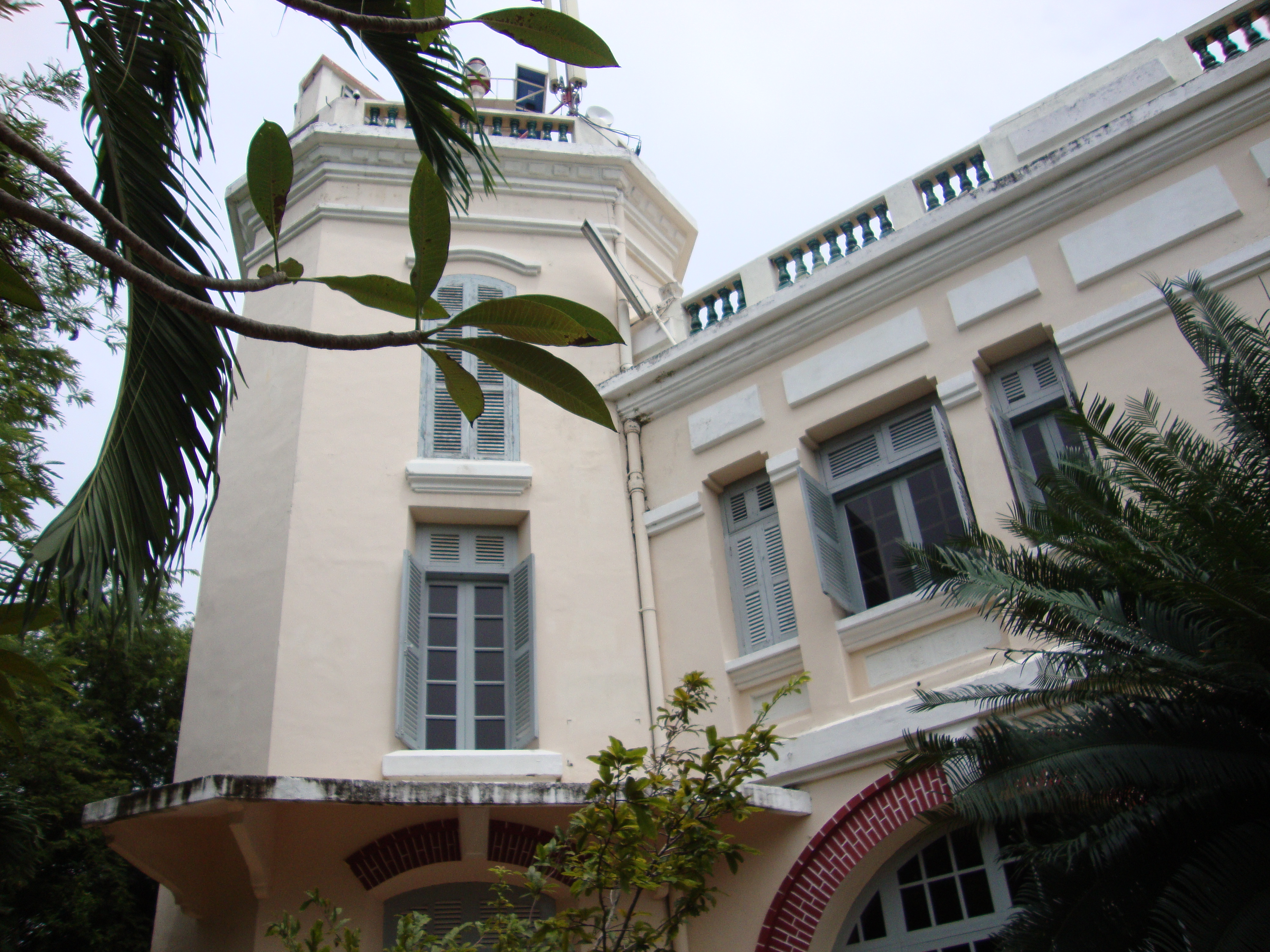 Bao Dai's Villas is one of the few remaining examples of French colonial architecture in Vietnam. Built in 1923 as a holiday resort for the last Vietnamese King Bao Dai and Queen Nam Phuong, the Villas sit on a promontory of 120,000m2 of lush vegetation. The Villas overlook the South China Sea, its coastal islands and enjoy sea breeze all year round.